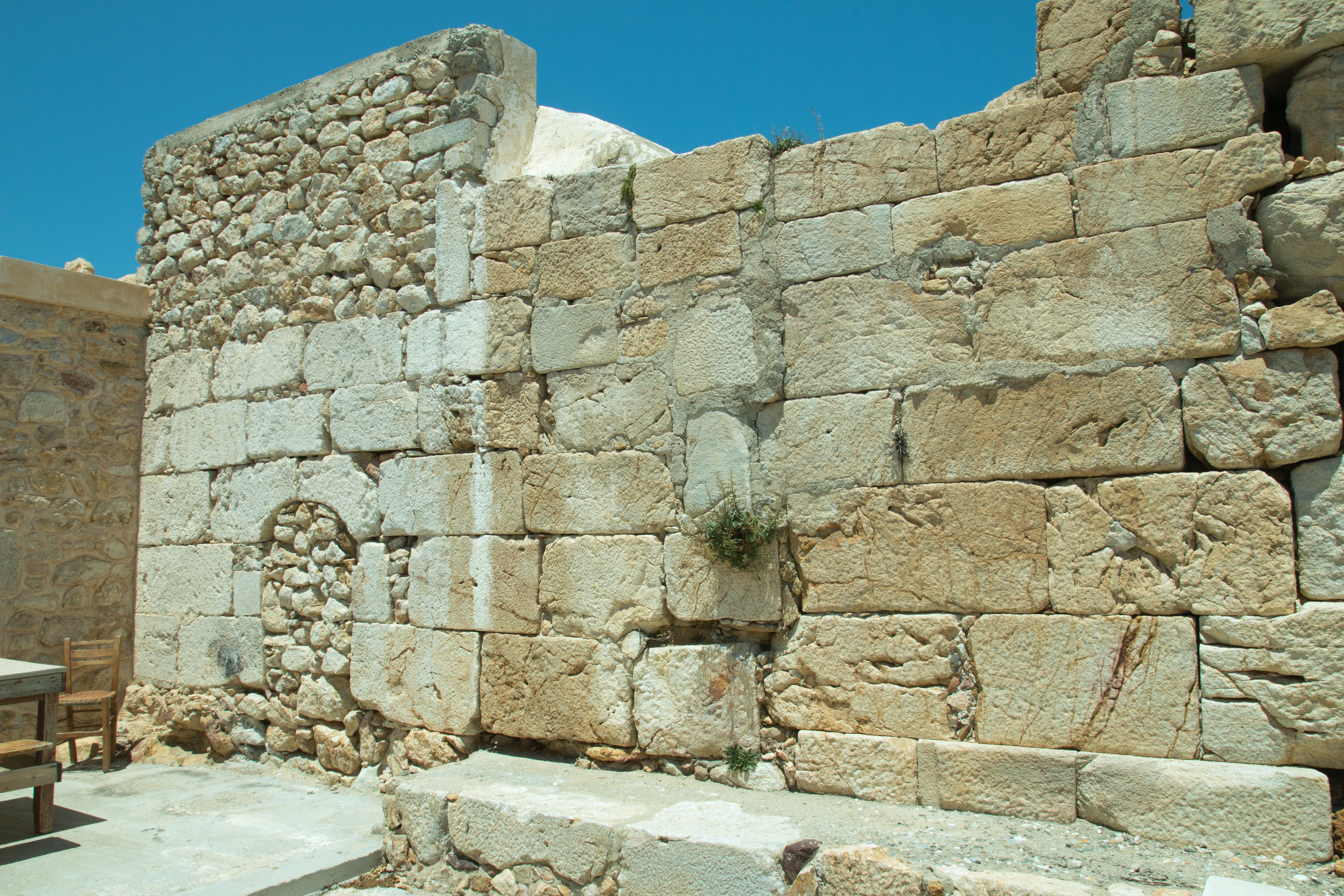 Rest of Apollo's temple next to the gate to the sanctuary. Partly in Christian rebuilding. In the Zoodochos Pigi Monastery on the island of Anafi.